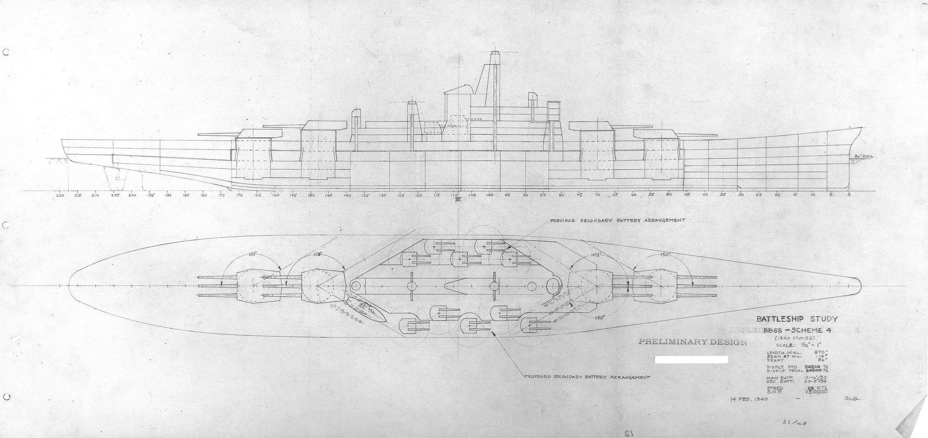 Battleship Study - BB65 - Scheme 4 - (1940 Studies)